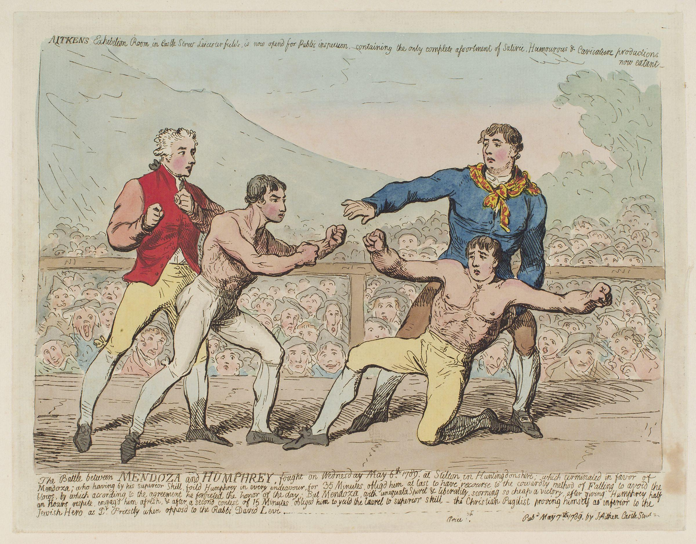 The battle between Mendoza and Humphrey fought Wednesday May 6 1789 at Stilton in Huntingdonshire...' (Daniel Mendoza; Richard Humphries), by James Aitken (floruit 1795), published 1789. According to the NPG's website the work was published prior to 1859, and so the author is reasonably presumed dead by 1939.